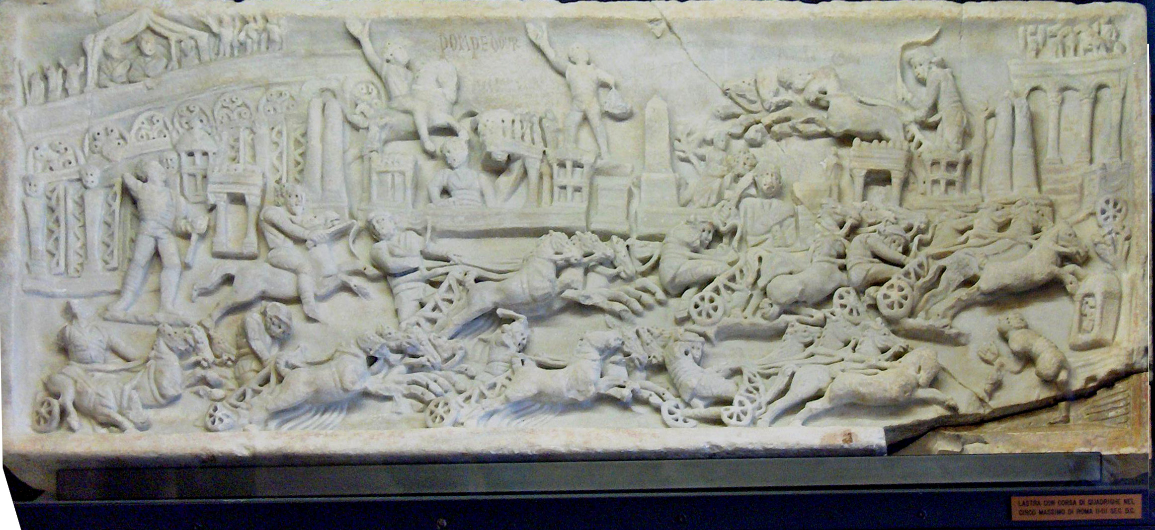 Roman half-relief with a quadriga race in the Circus Maximus, Rome (2-3rd century); Trinci Palace, Foligno, Italy